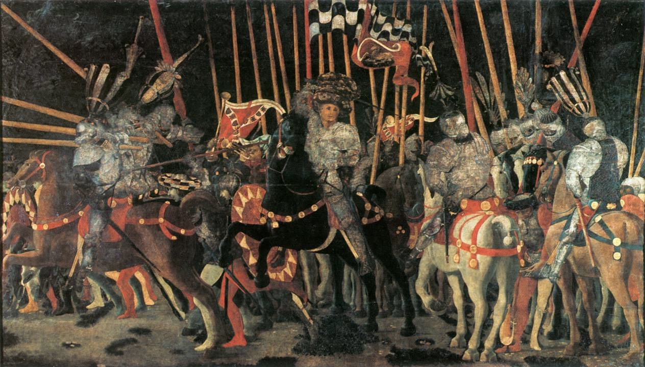 UCCELLO, Paolo Micheletto da Cotignola Engages in Battle Tempera on wood, 180 x 316 cm Musée du Louvre, Paris